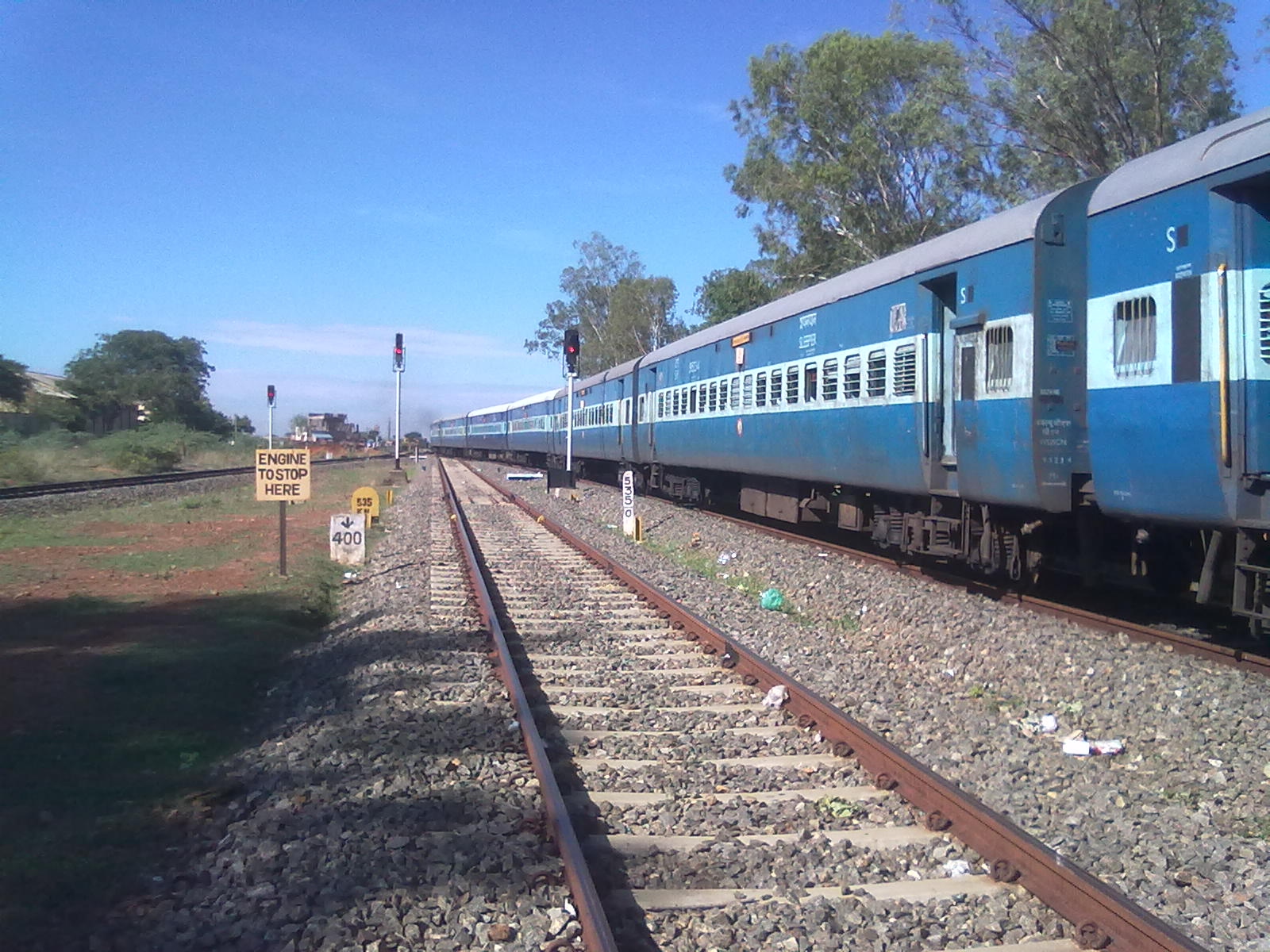 Boat mail express passing through Sivagangai station